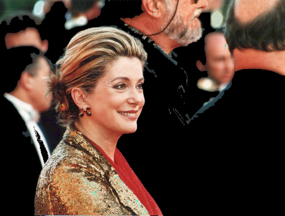 Cleaned up version at Image:Catherine deneuve2.jpg Catherine Deneuve at Cannes in 2000. My own work. Created by Rita Molnár 2000. Weird bright pixels. Some kinda dithering issue? Deco 06:33, 1 January 2006 (UTC)